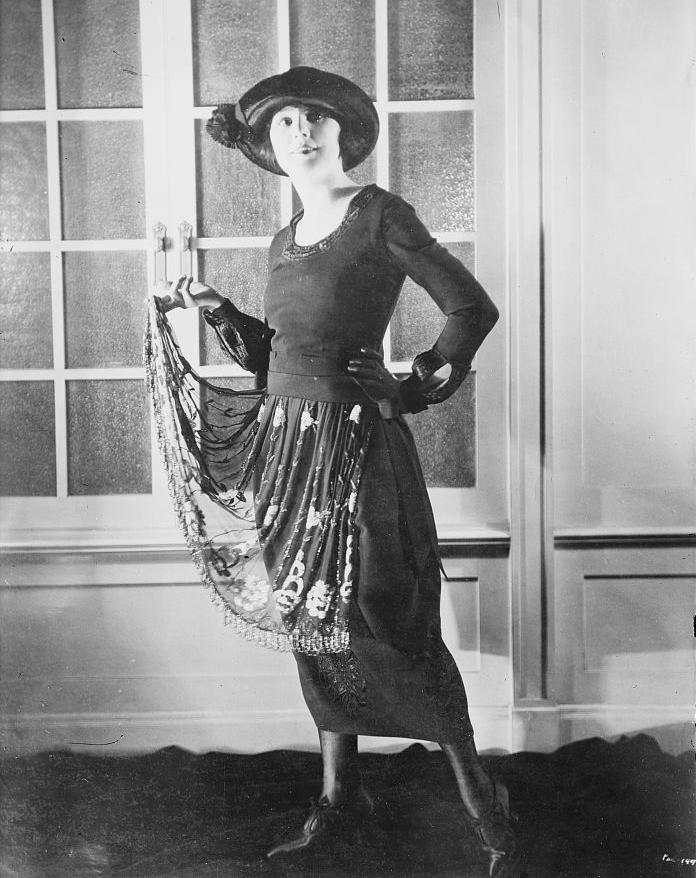 Leatrice Joy